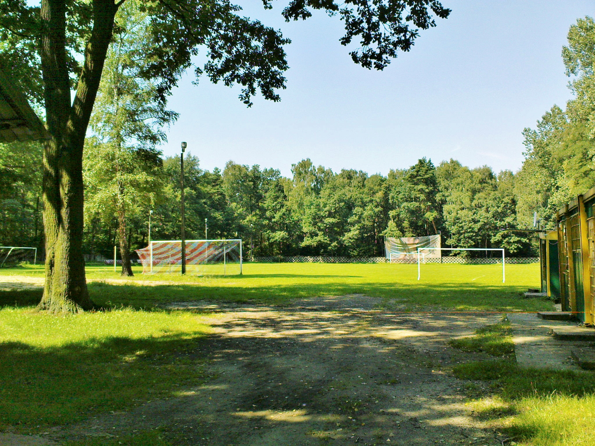 Szarów - a football stadium LKS Zryw Szarów